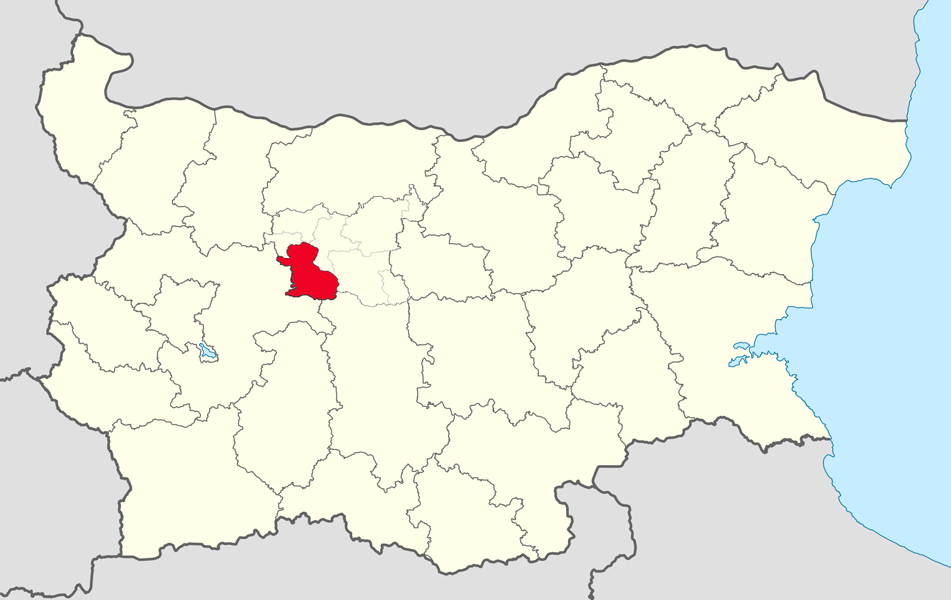 Location map of Teteven Municipality within Lovech Province, Bulgaria. Equirectangular projection, N/S stretching 130 %. Geographic limits of the map: N: 44.4° N S: 41.1° N W: 22.1° E E: 28.9° E